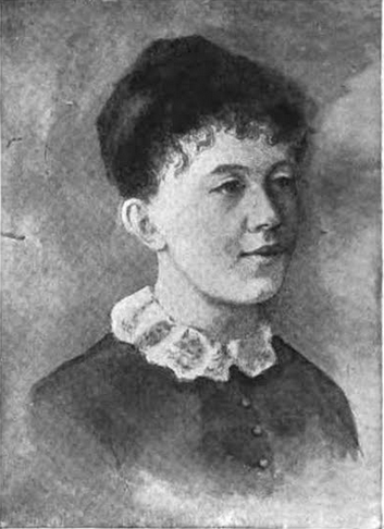 Allegra Eggleston